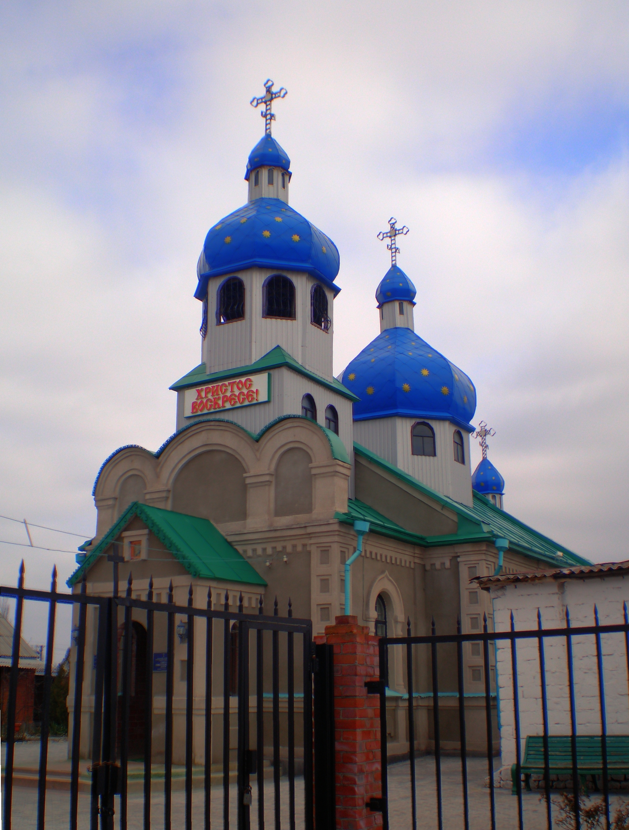 Church of St. Michael in Novoazovsk, Ukraine